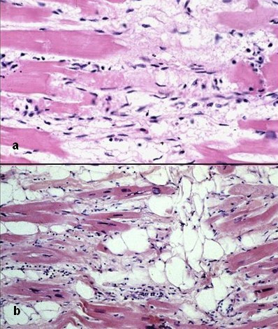 Typical histologic features of ARVC/D. Ongoing myocyte death (a) with early fibrosis and adipocytes infiltration (b).